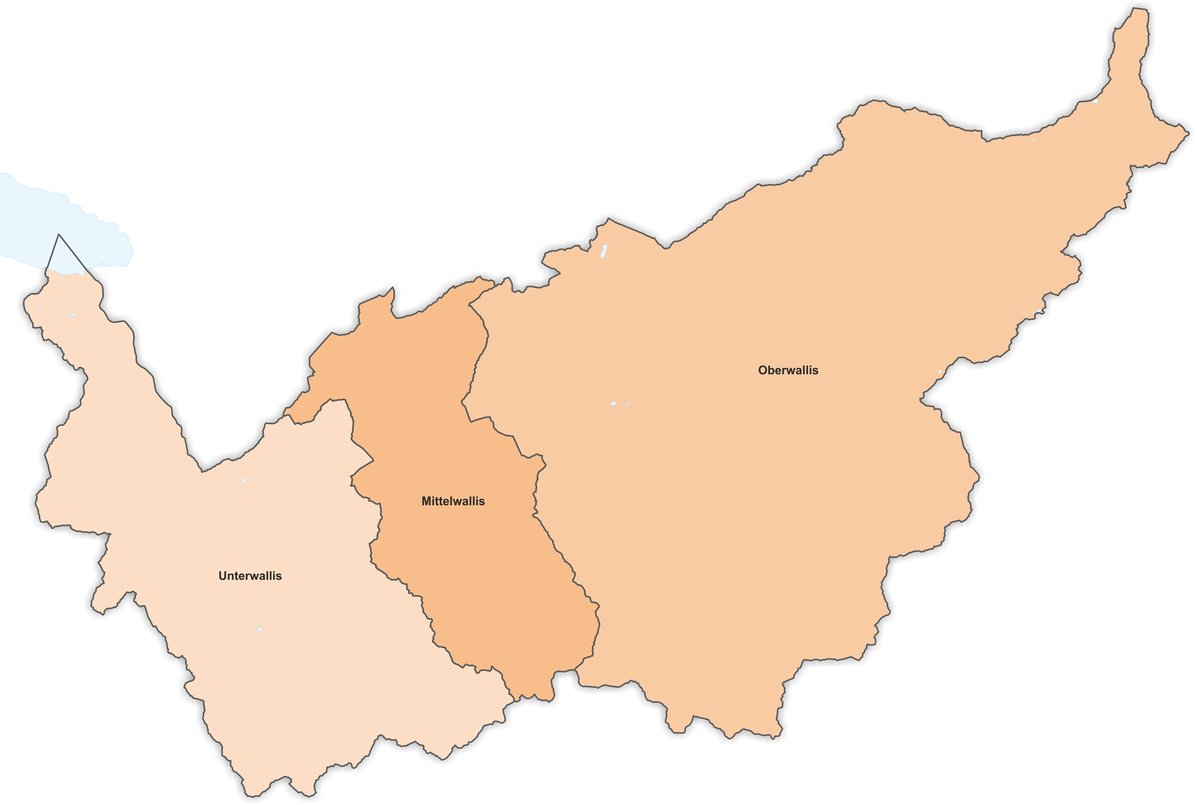 National council constituencies in the canton of Valais from 1863 to 1899